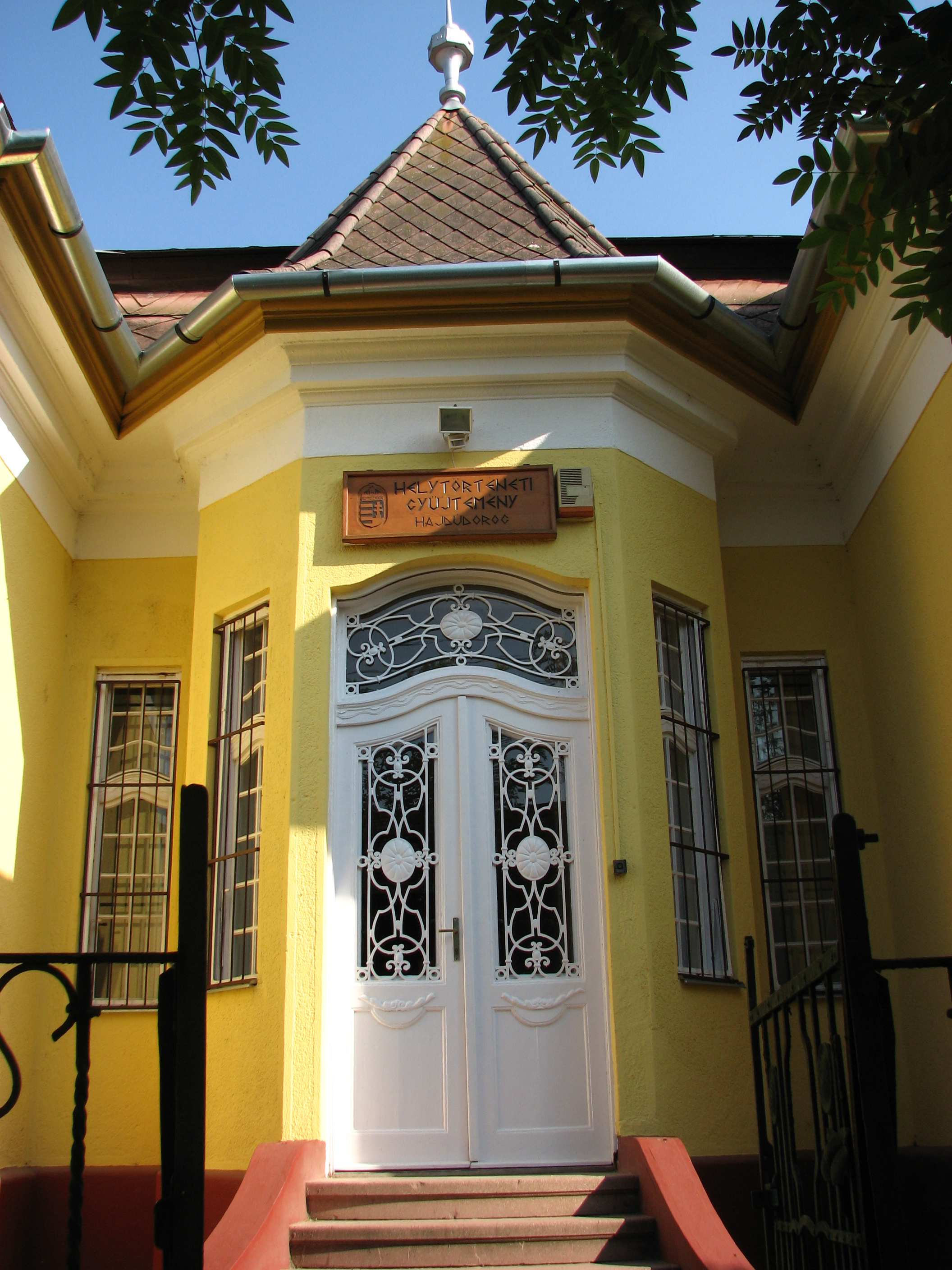 The entrance of the local History, Ethnographic and Art Collection in Hajdúdorog, Hungary.